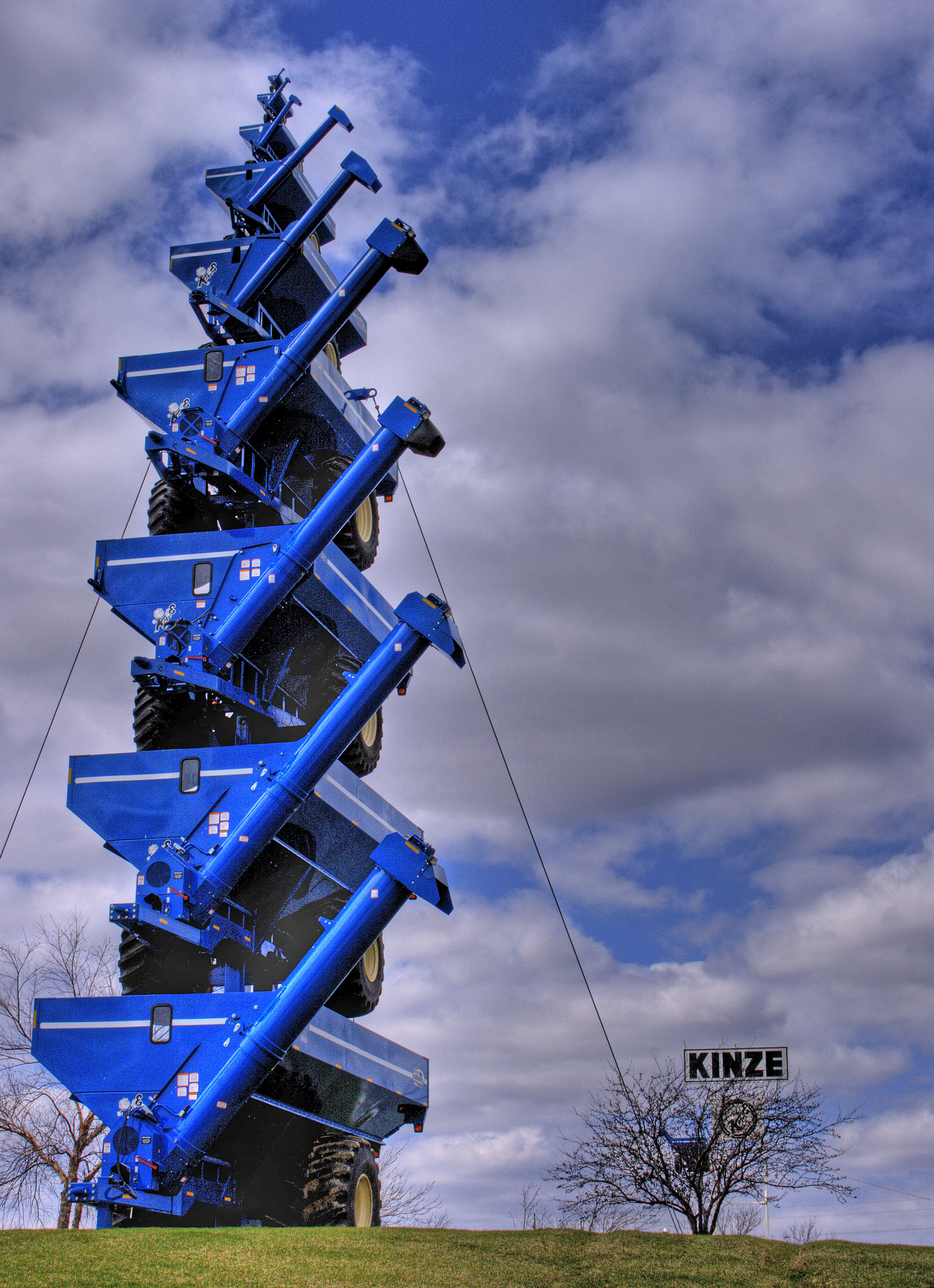 Stacked Kinze grain auger carts (sort of advertizing sculpture) in Williamsburg, Iowa County, Iowa, USA